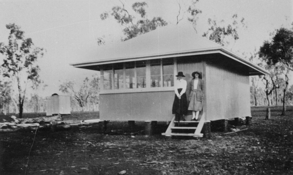 Original one room school at Biddeston Queensland, circa 1921